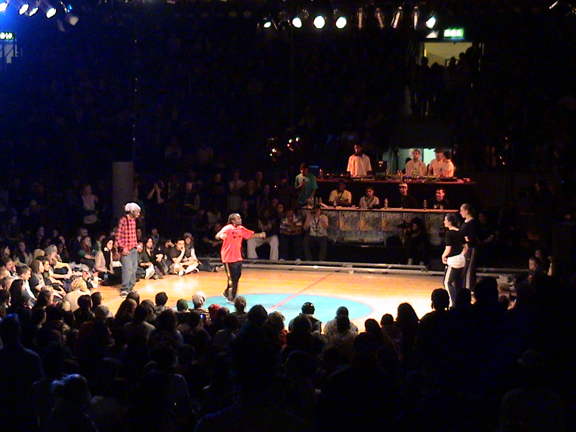 Juste Debout Scandinavia 2008 in Stockholm, Sweden. In the ring: Niki.